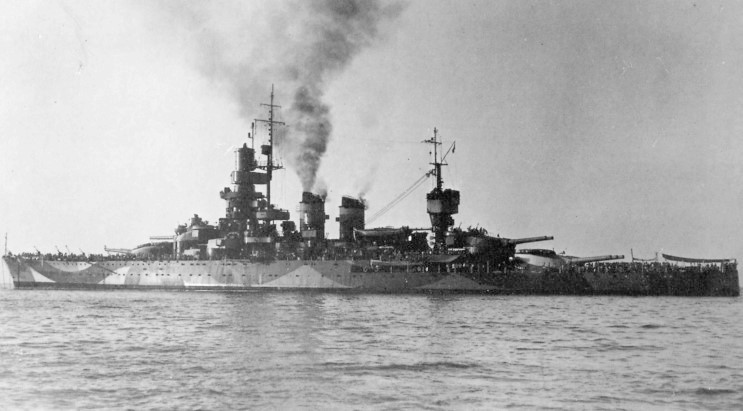 Italian battleship Andrea Doria at Malta in 1943